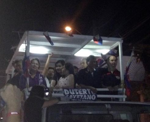 Rodrigo Duterte while at a motorcade in Navotas.